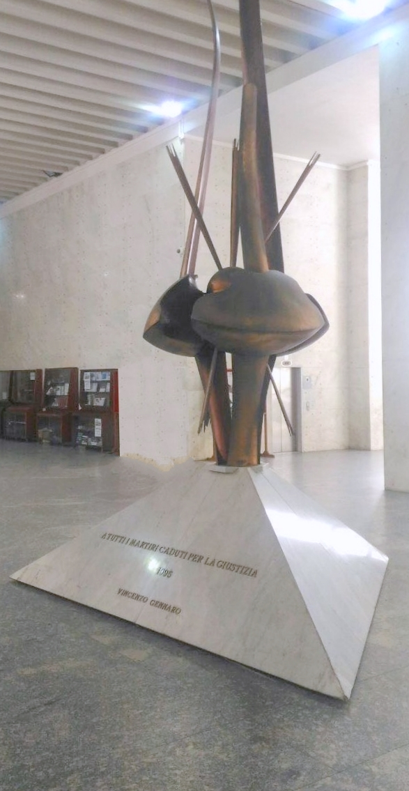 Metamorfosi di Primavera. 1995. Bronze Sculpture by Vincenzo Gennaro. Palermo Justice Courthouse